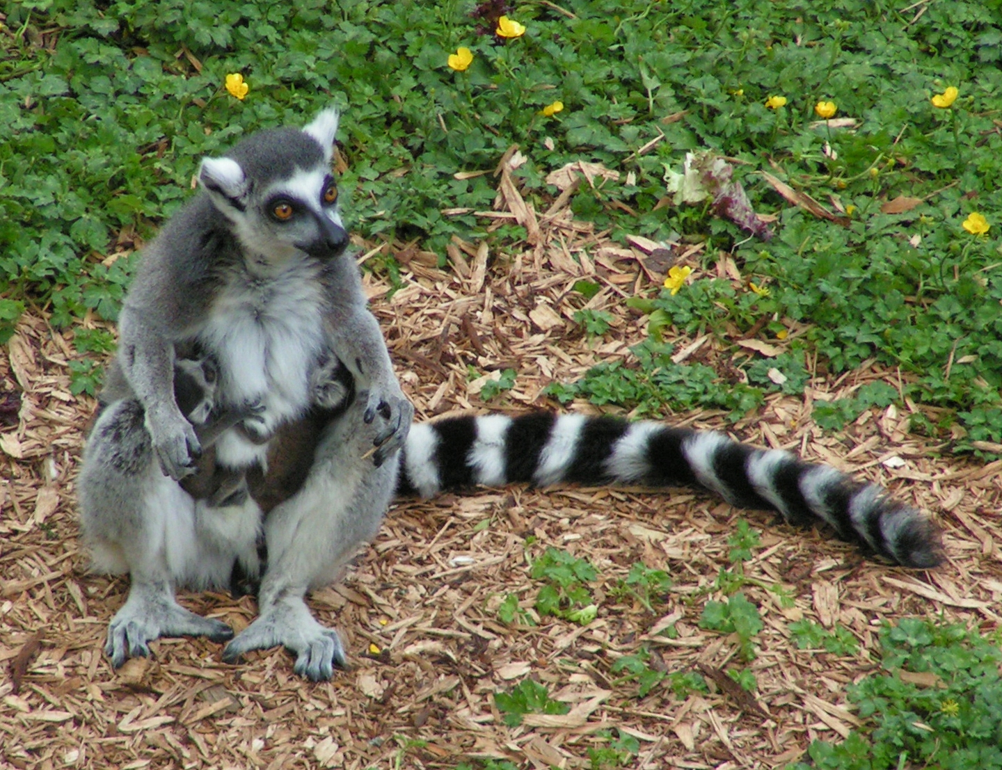 Ring-tailed Lemur (Lemur catta) holding twins born the previous night. Colchester Zoo (United Kingdom), 2 June 2004.